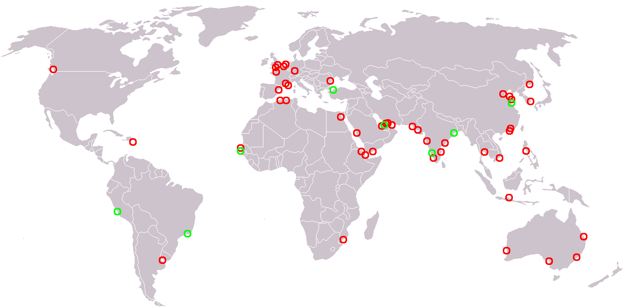 Map of the DPWorld terminals.